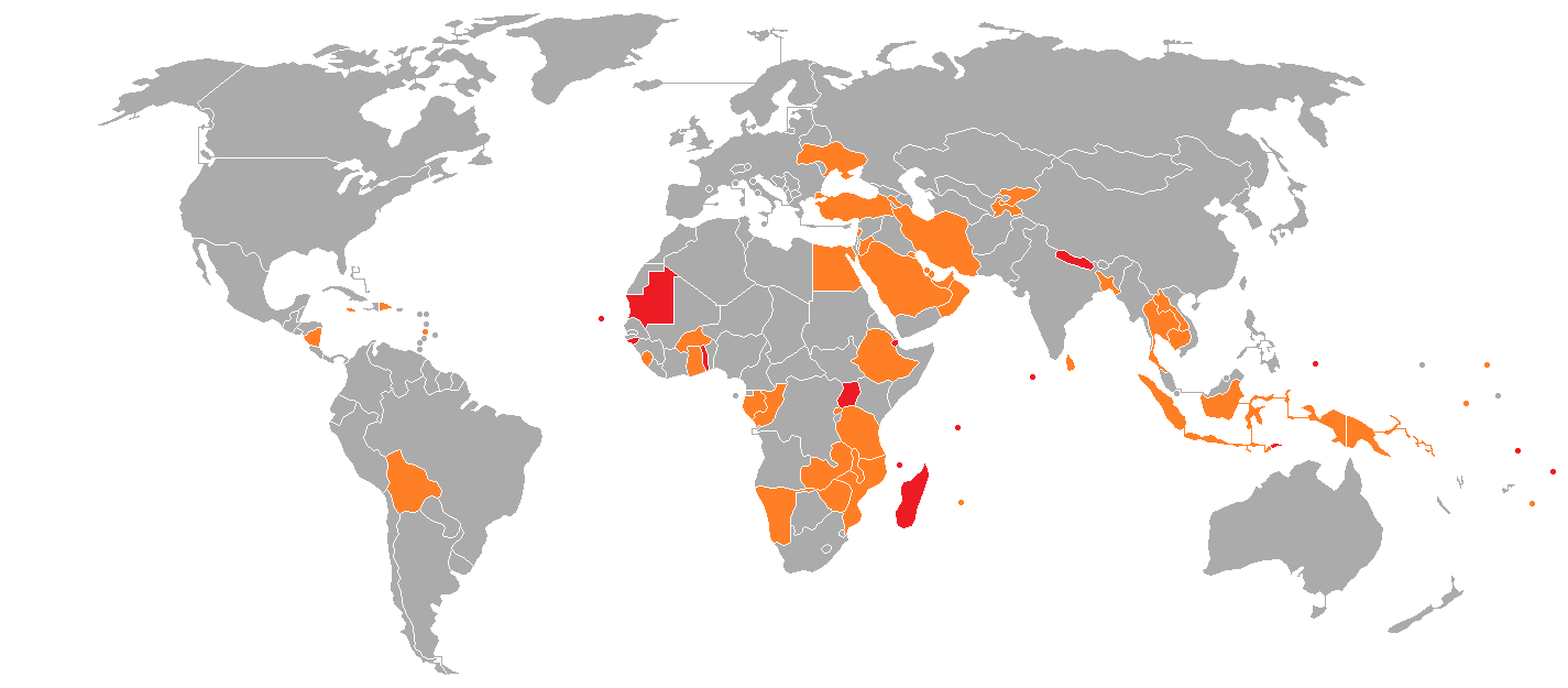 Countries that issue visas or permits on arrival as a general rule for all arriving visitors Countries that issue visas to a select group of nationalities (more than 10)